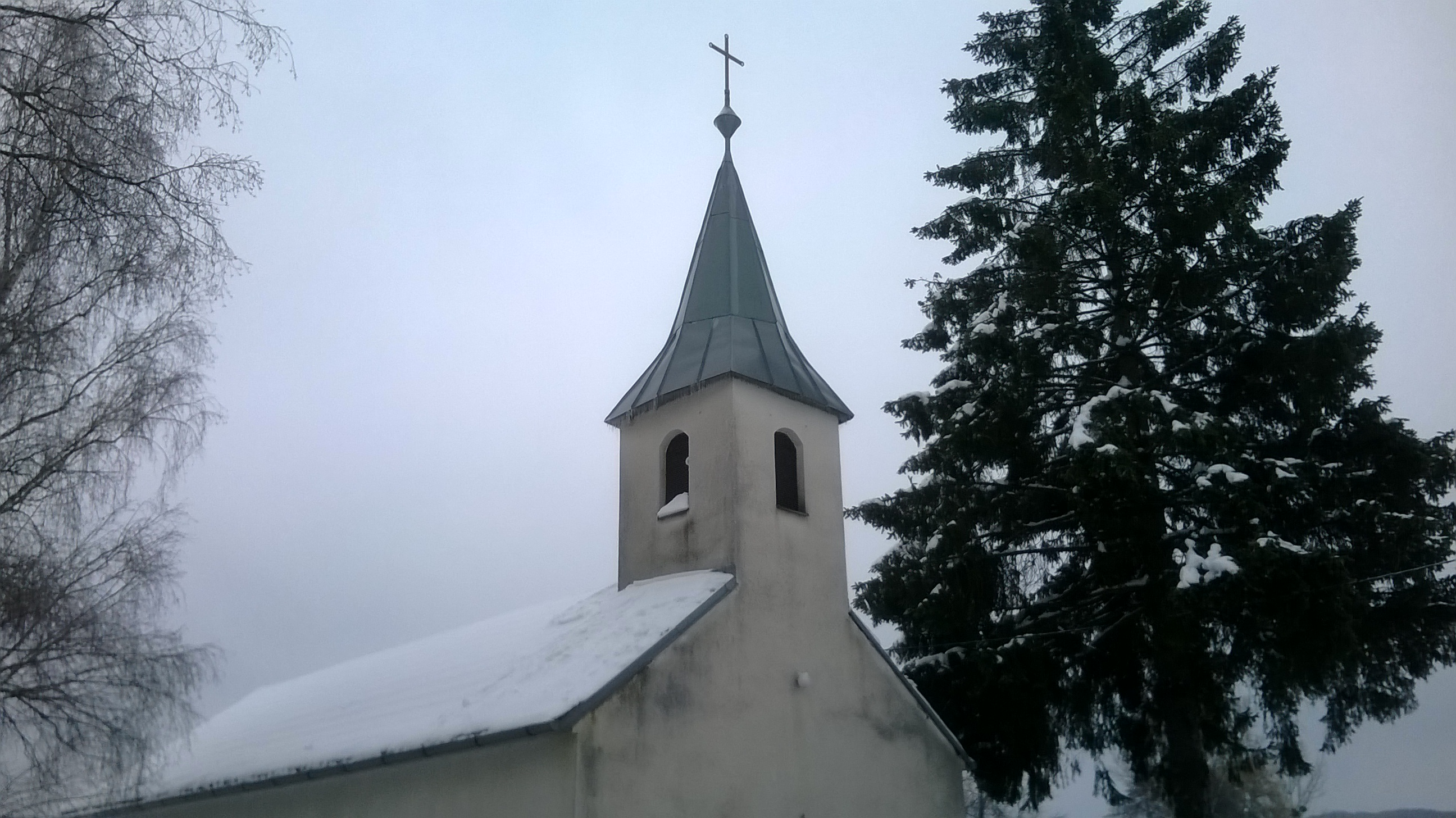 Kapelica sv. Antuna Padovanskog u Ribnjačkoj